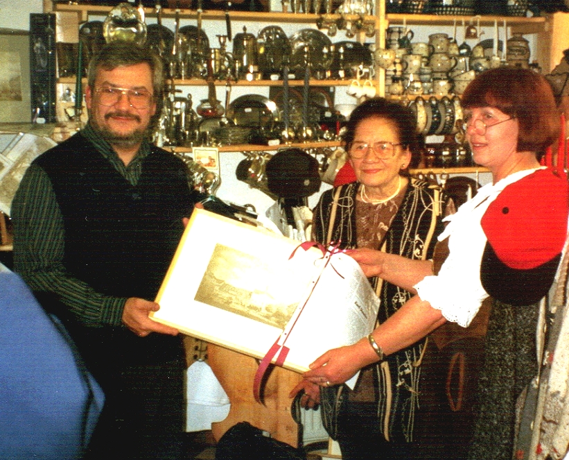 Start of the presentation of Stanka reproductions in November 1999